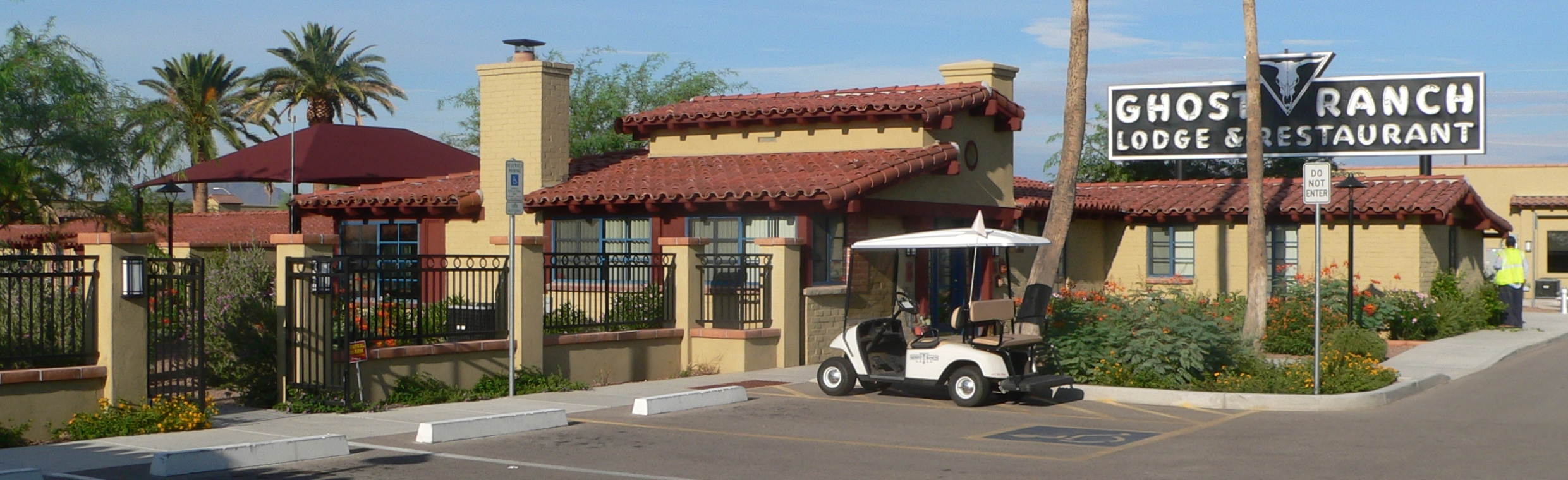 Ghost Ranch Lodge, located at 801 W. Miracle Mile in Tucson, Arizona: sign and central building, seen from the northeast.